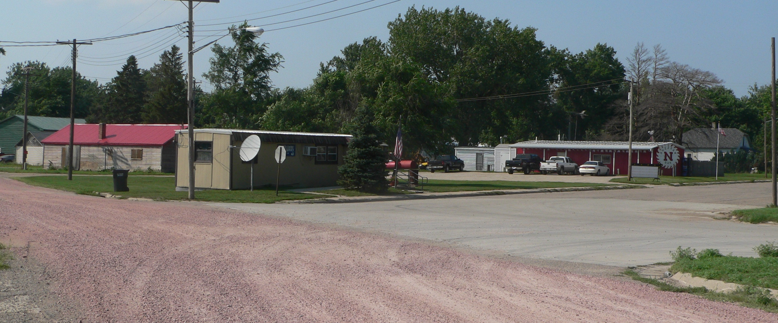 Downtown Waterbury, Nebraska. Camera is facing generally northwest from the triple junction of Garrett, 2nd, and Logan Streets.